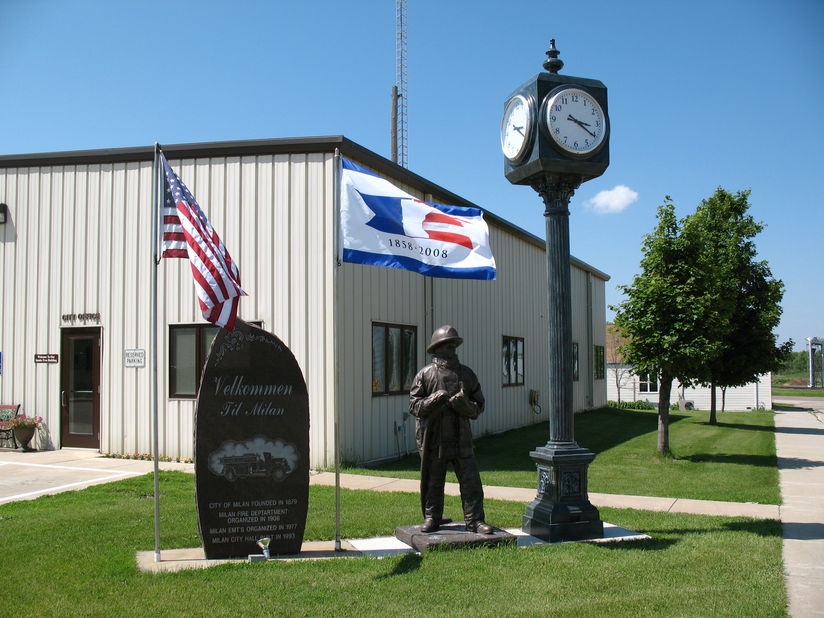 Front of city hall in Milan, Minnesota.